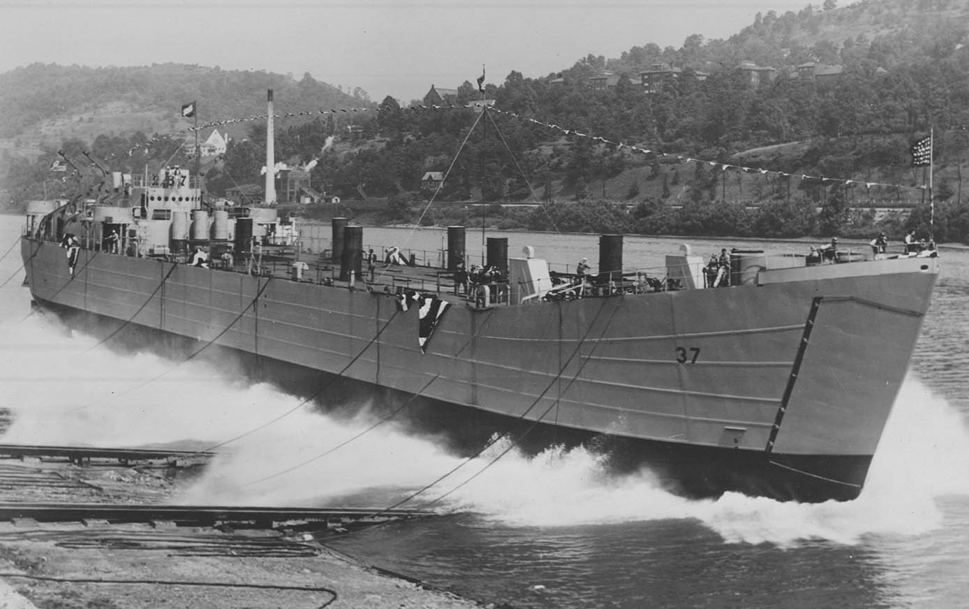 Shipyard workers hang on as LST-37's hull tastes water for the first time as she is launched at the Dravo Corp. shipyard at Neville Island, PA., 5 July 1943. US National Archives Photo # 80-G-043579, a US Navy photo now in the collections of the US National Archives.